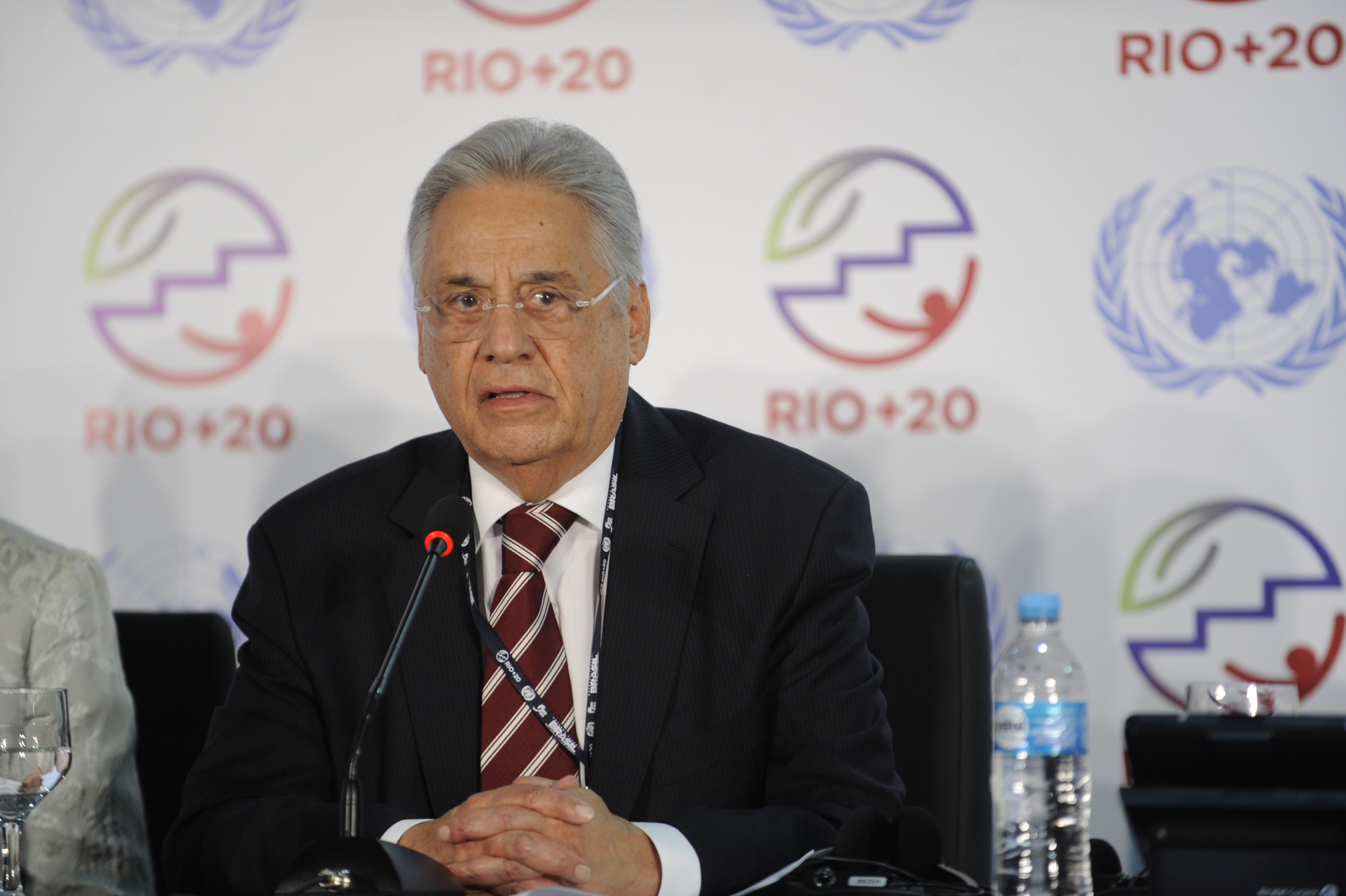 Fernando Henrique Cardoso at Rio+20.